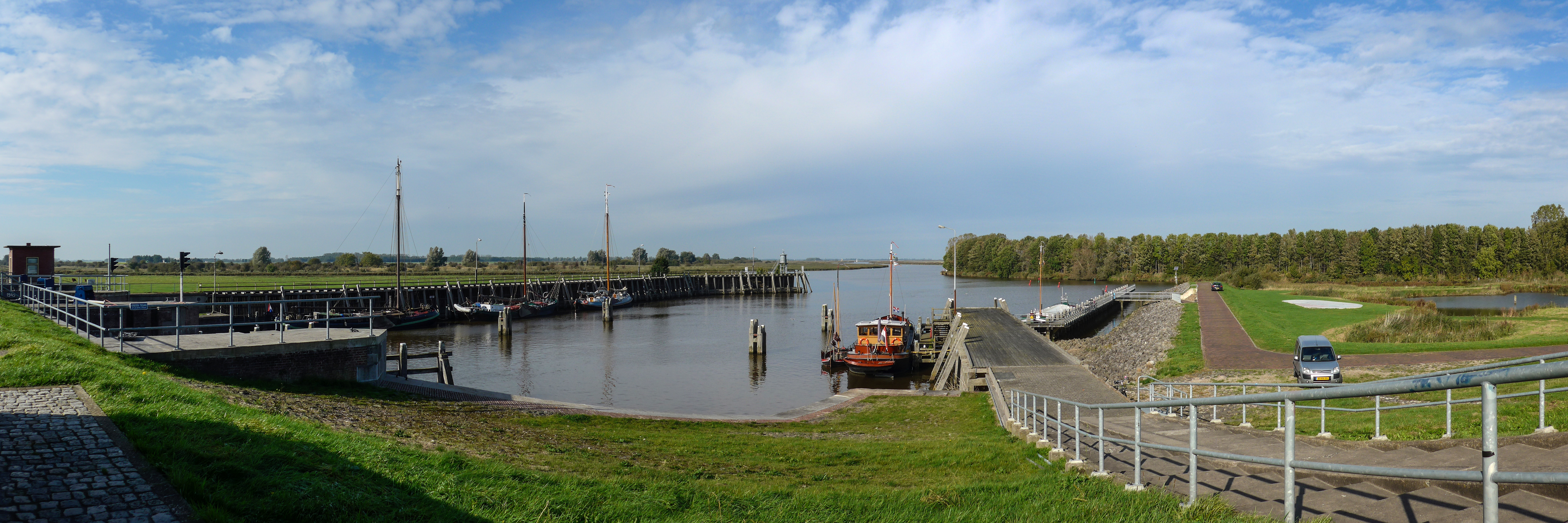 The outer harbour of Zoutkamp, a village in the Dutch province of Groningen.